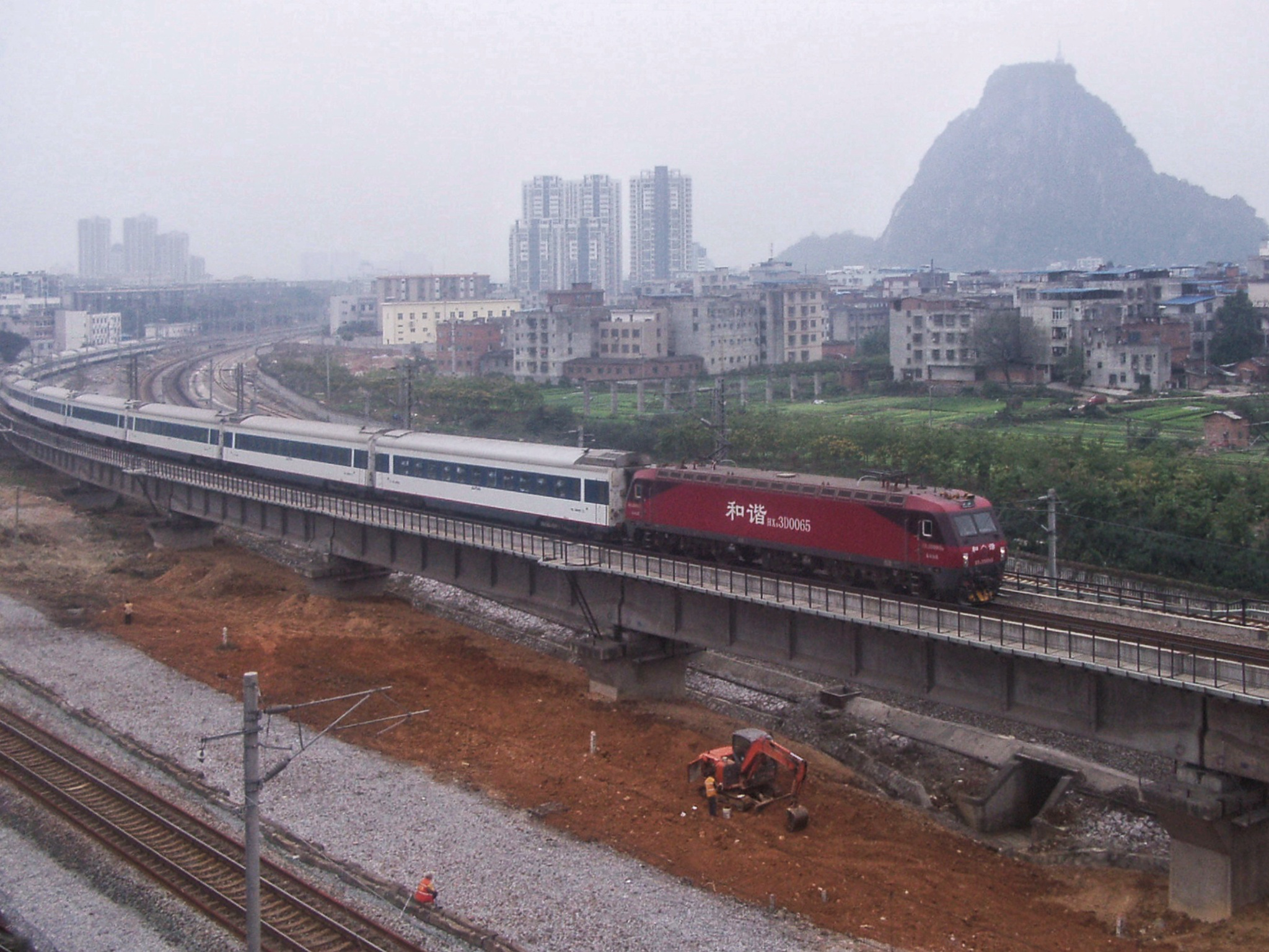 China Railways HXD3D 0065 with the last T6 Nanning to Beijing Through Train in Liuzhou, China.